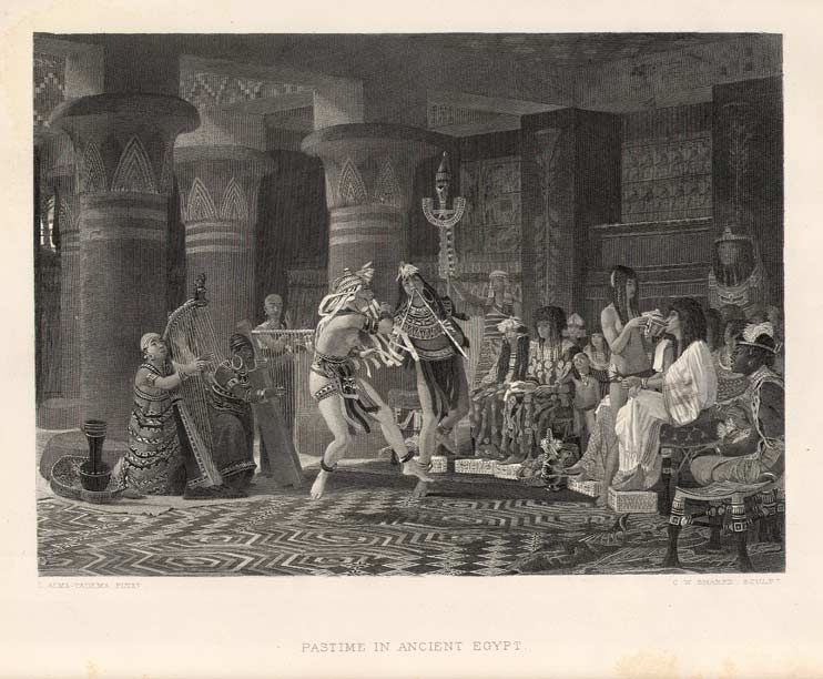 1888 lithograph by C. W. Sharpe of the 1864 painting by Alma-Tadema, "Pastime in Ancient Egypt"